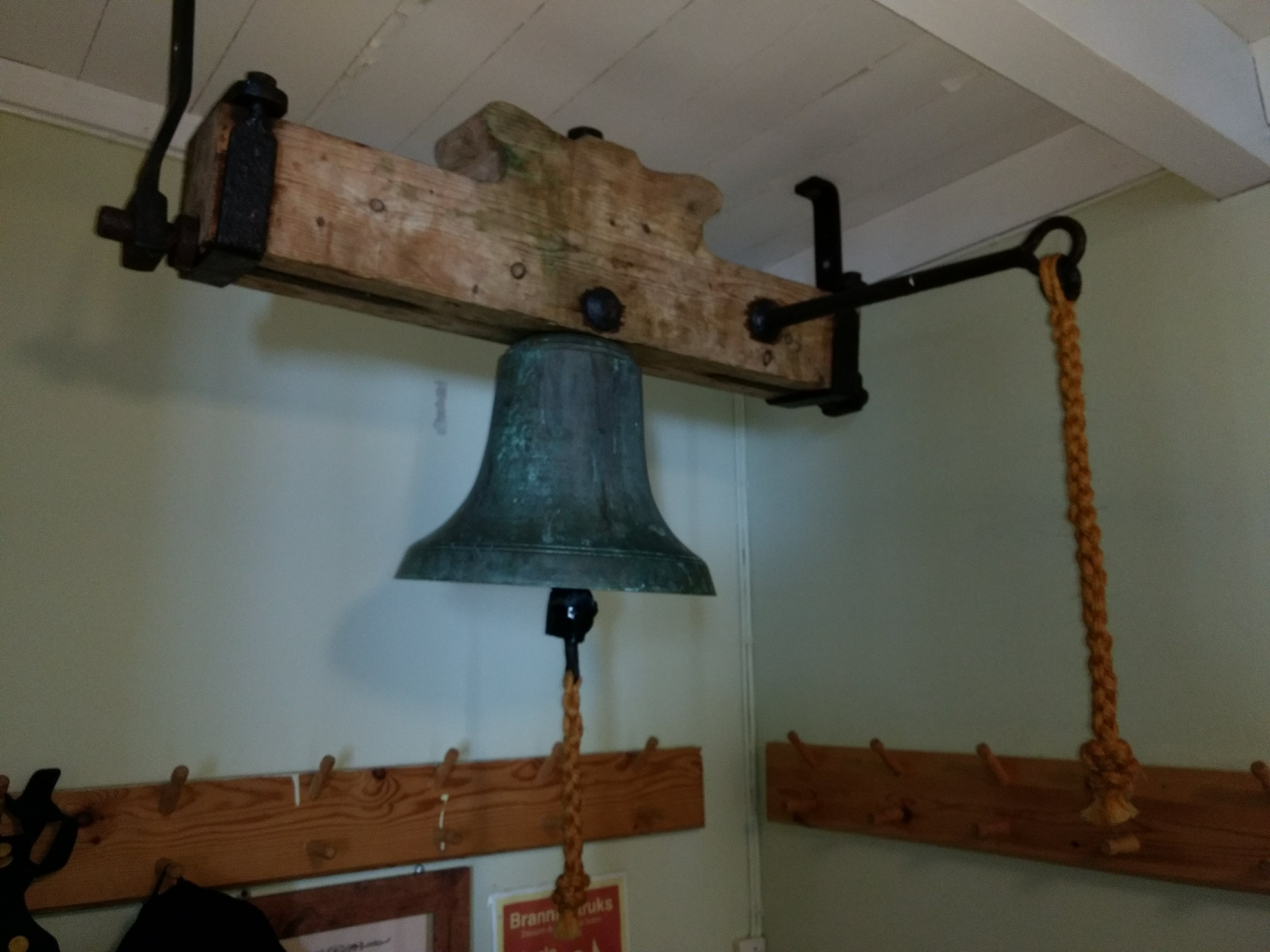 Bell in Mjelde chapell, Tromsø